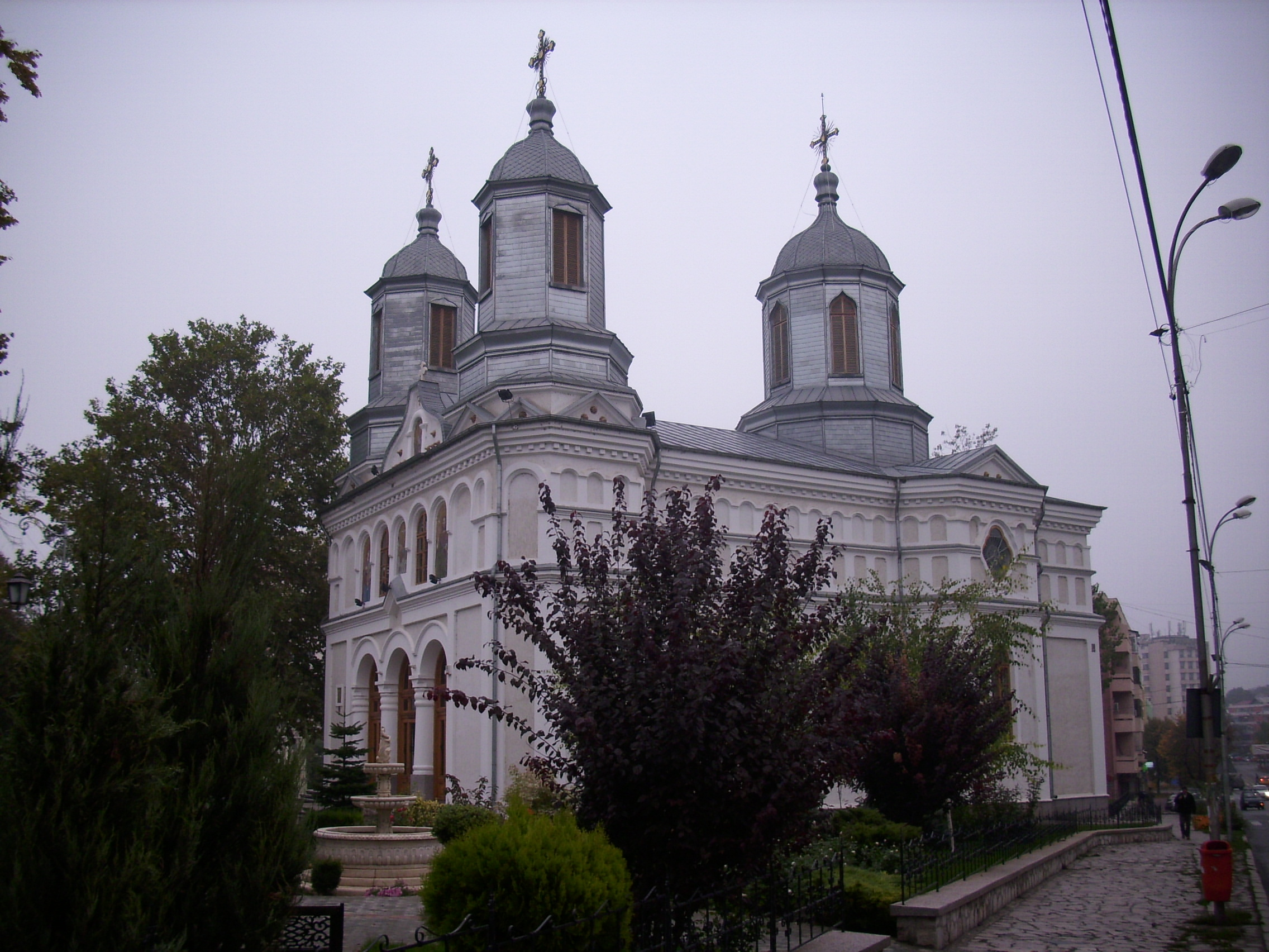 Tulcea - Bulgarian Exarchatе Cathedral